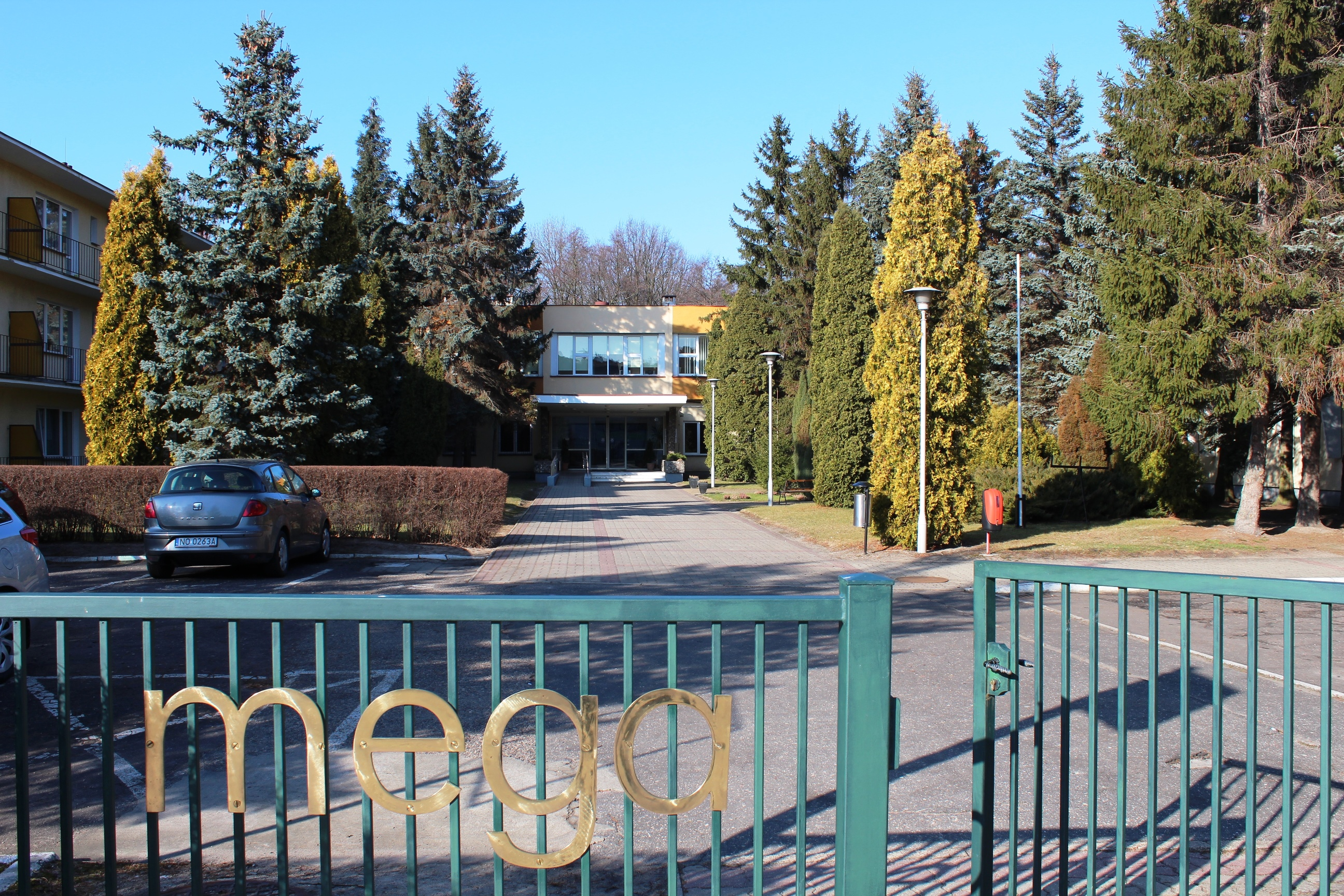 Mega Sanatorium in Kołobrzeg